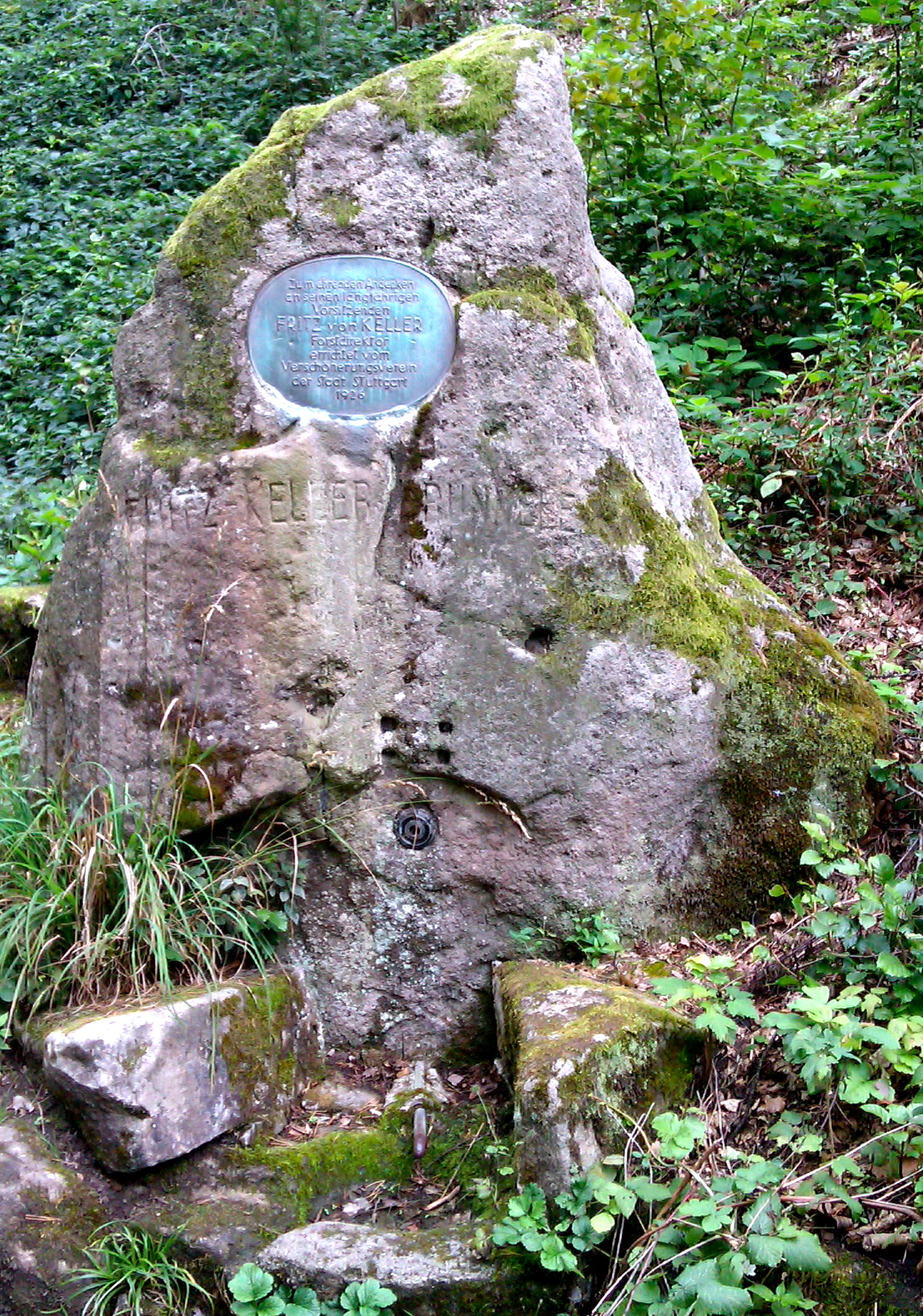 Memorial fountain to Friedrich “Fritz” von Keller, politician and forester, in Stuttgart